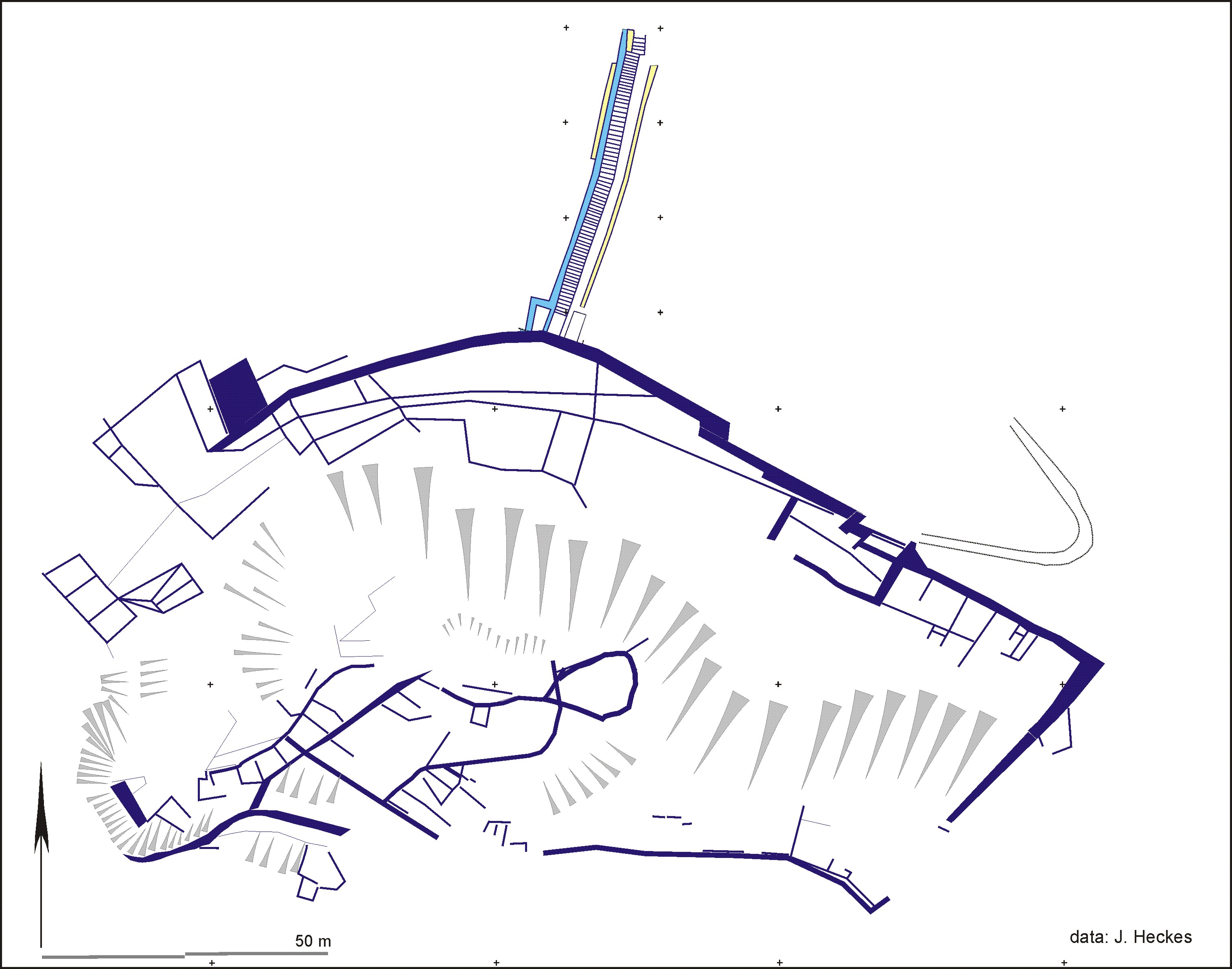 Plan of the Early Iron Age fort, Lizq L1, Sharqiyah governorate, Sultanate of Oman .